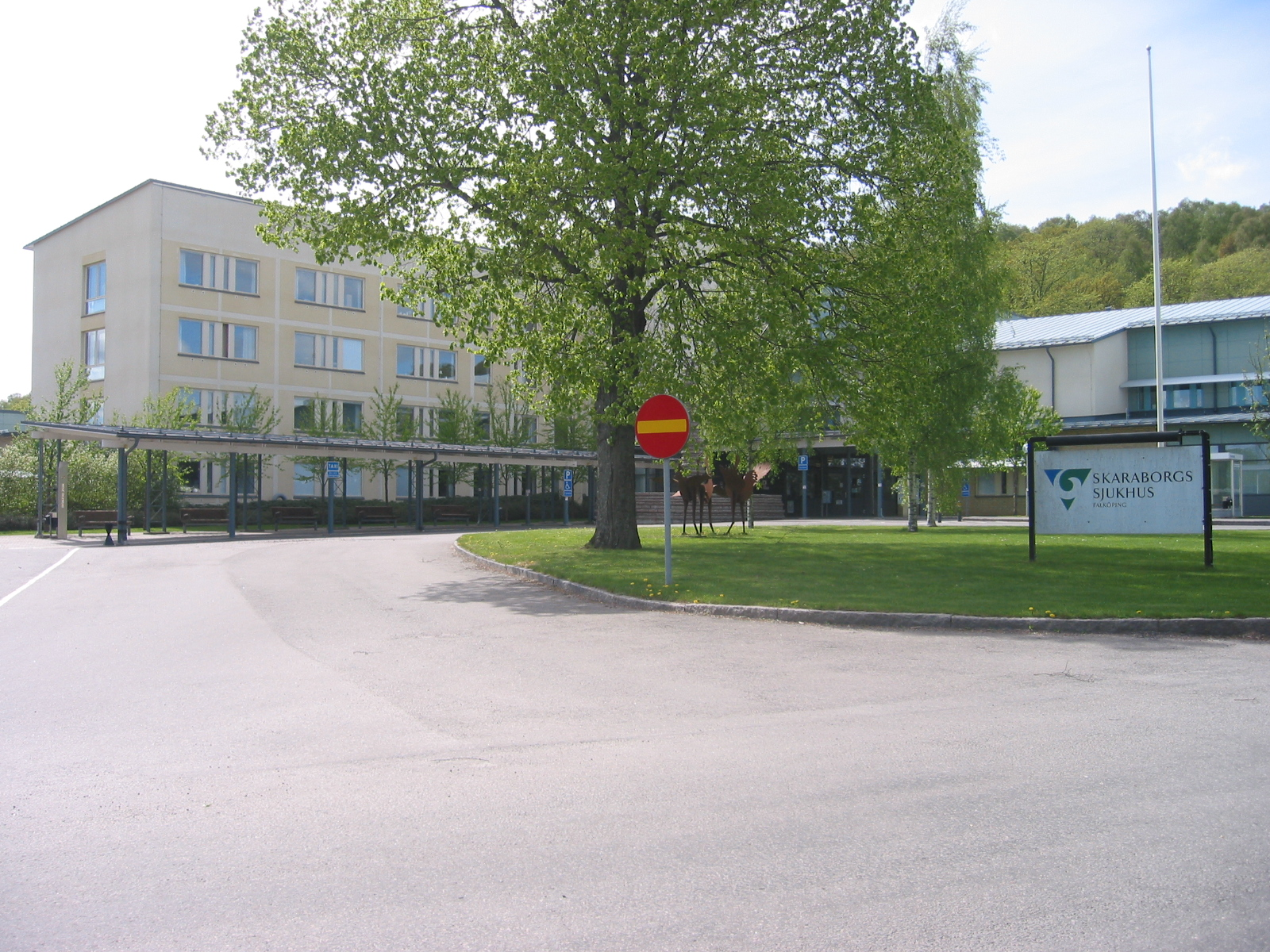 Hospital of Falköping, main building